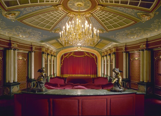 Kiev Theater, Kiev Ukraine